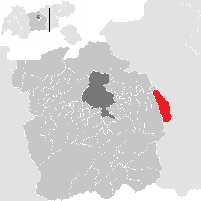 District Innsbruck Land